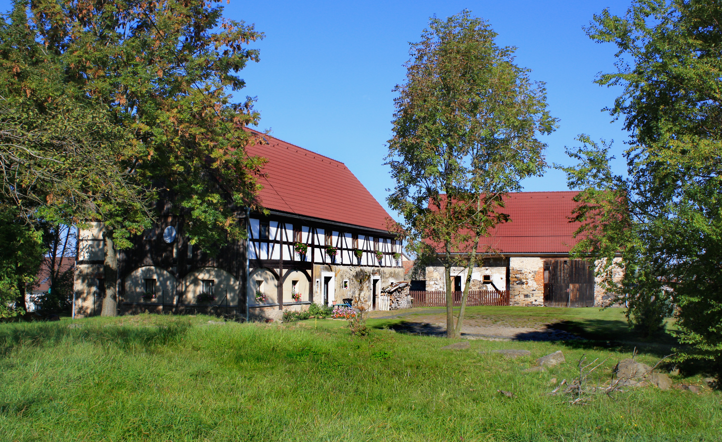 South part of Větrov, part of Frýdlant, Czech Republic